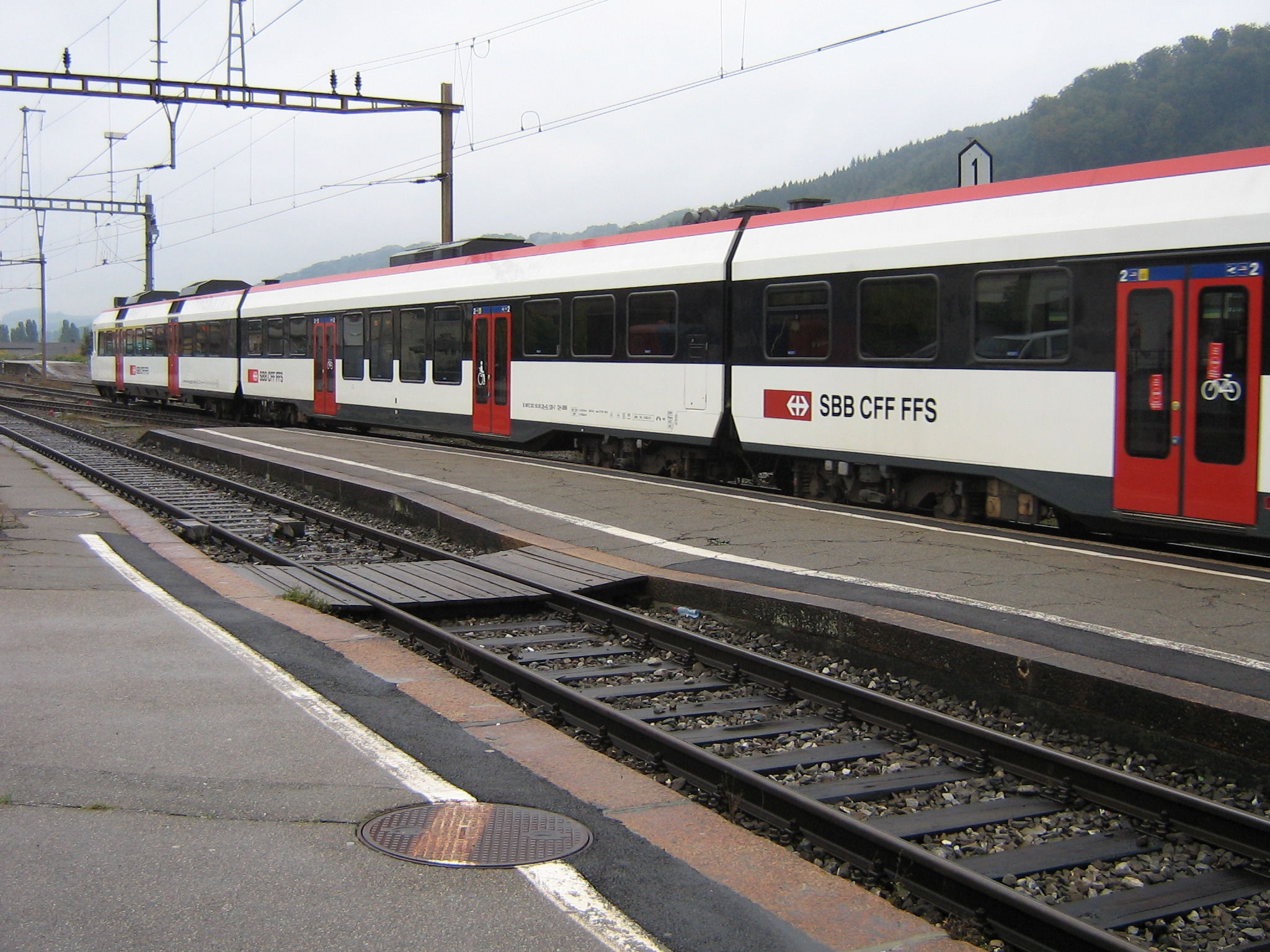 S21 leaving the railway station of Moudon for Payerne